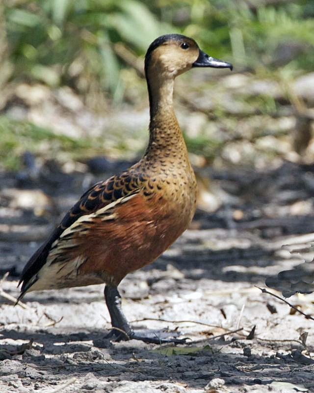 Australian Wandering Whistling-Duck Wandering Whistling-Duck Dendrocygna arcuata Dendrocygna arcuata australis Mary River, Northern Territory, Australia 8 August 2010 Distribution: 690V9430